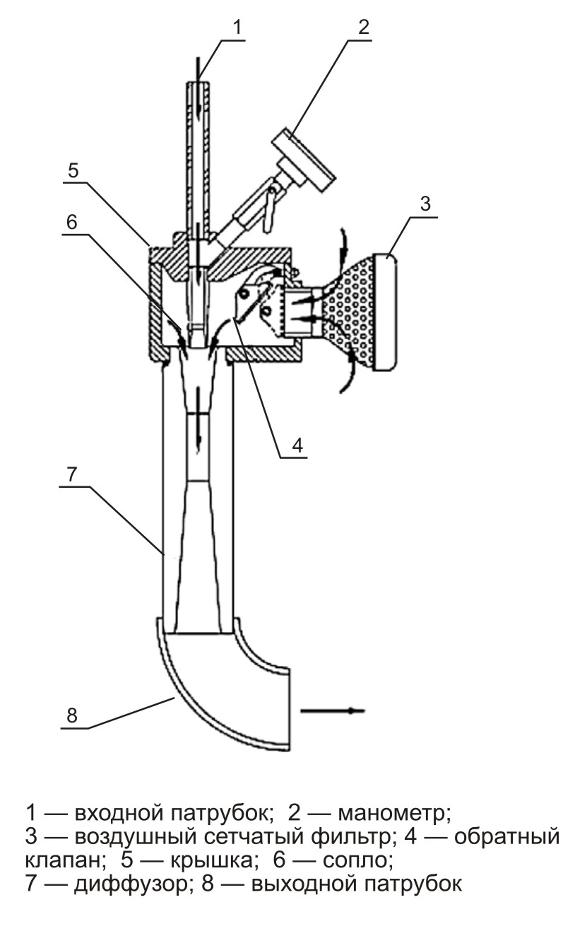 Схема смесительного устройства SNG